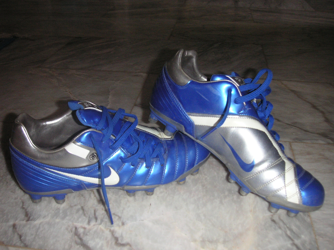 Author's own picture. Soccer shoes Nike Totoal 90 Shift GF